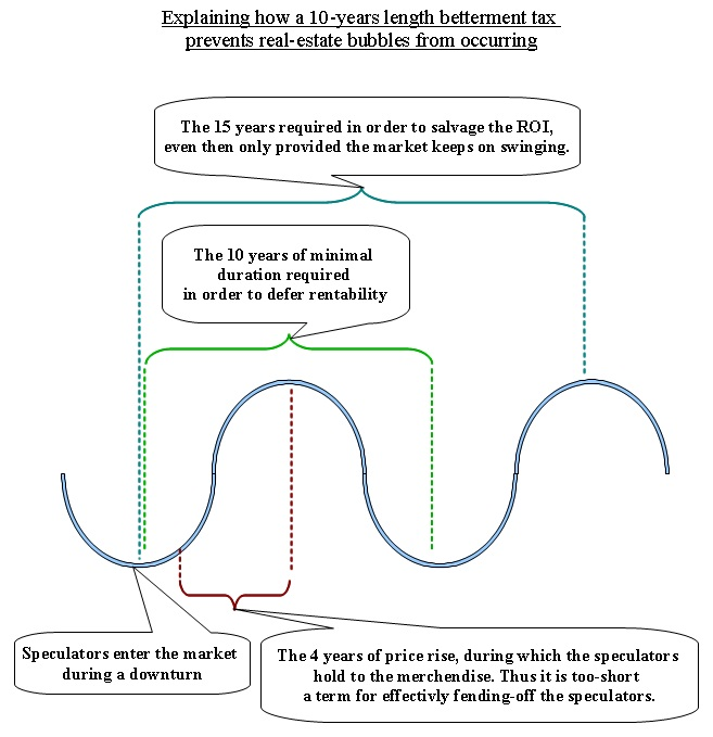 This image demonstrates how to fend off speculators from the real-estate market.